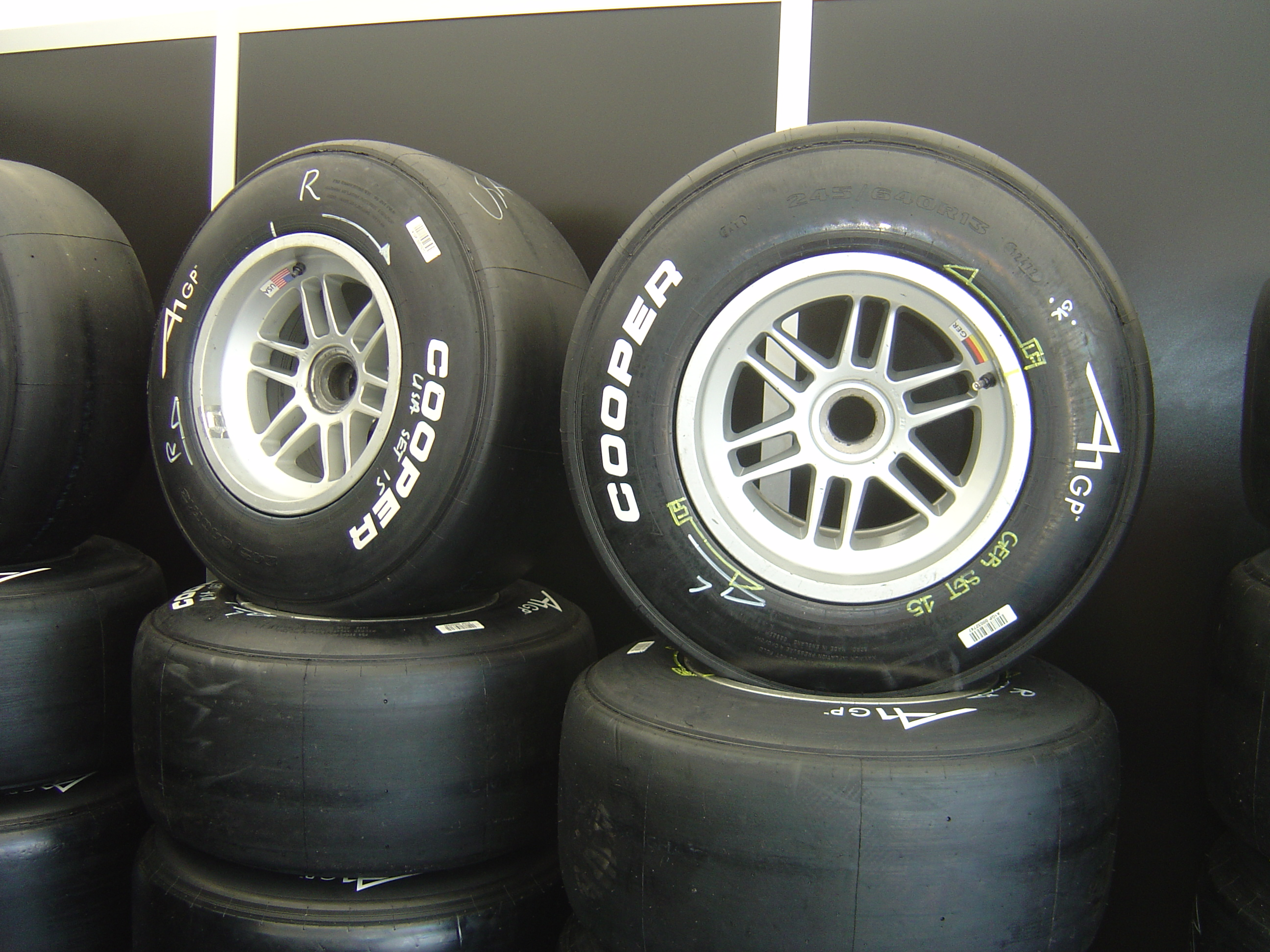 Cooper Tires: the photo was taken during 2007's A1GP race weekend at Brno